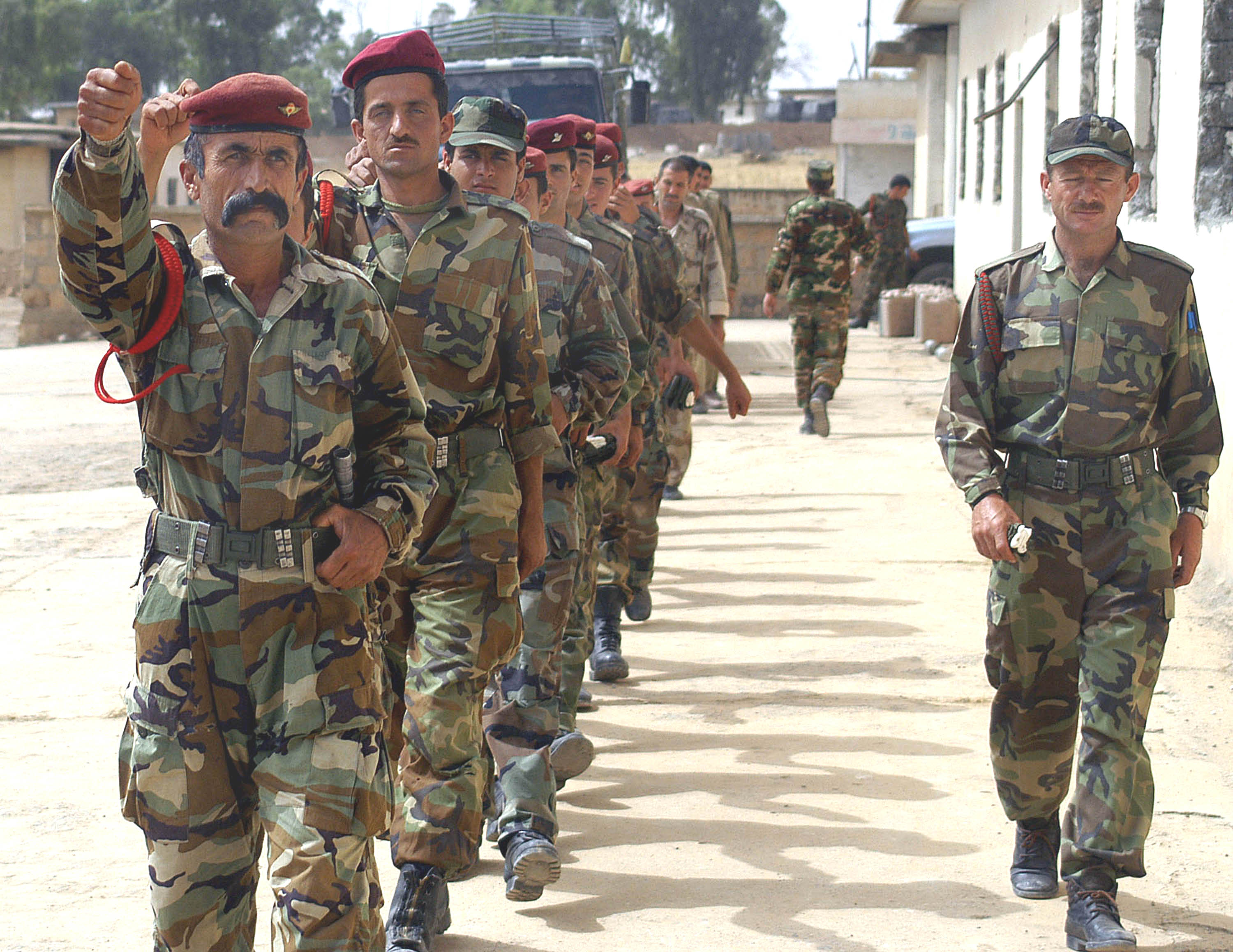 The Kurdish Peshmerga platoon of the newly-formed Joint Iraqi Security Company marches to class, Mosul, Iraq. The U.S. 2nd Battalion, 44th Air Defense Artillery Regiment, 101st Airborne Division are jointly training Kurdish and Iraqi forces, to become the first self-sufficient local military force.